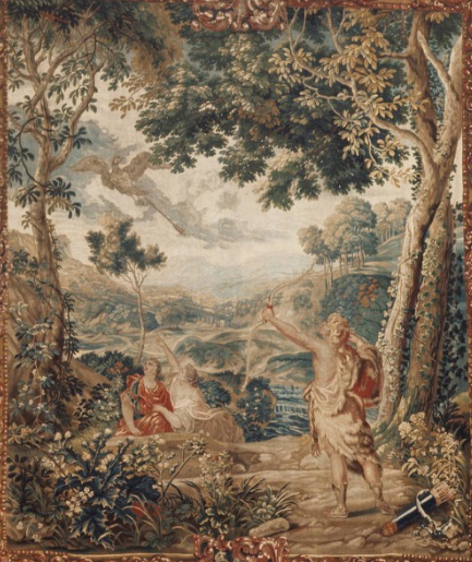 itle Hercules and the Stymphalian Birds Object Number y1948-69 Maker studio of Jacob van der Borght the Elder after Lodewijk van Schoor Medium Textile Dates ca. 1699 Dimensions 355.6 x 302.3 cm (140 x 119 in.) Credit Line Gift of Jay C. Hormel, Class of 1915 Culture Flemish Place made Europe, Brussels Type tapestries